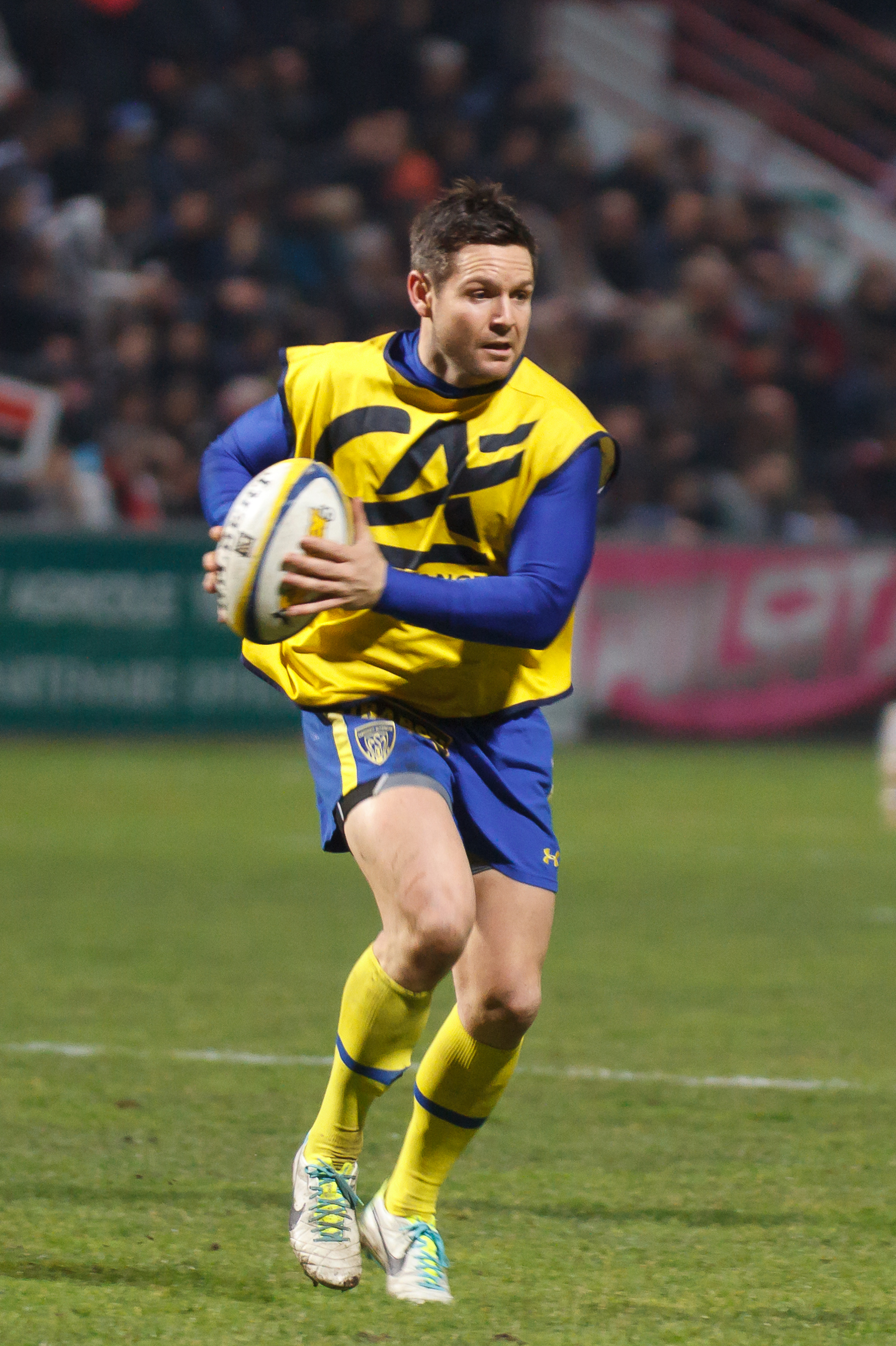 Mike Delany during warm-up session before the match between Stade toulousain and ASM Clermont Auvergne (Top 14), on January 5th, 2014.